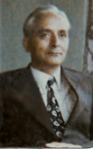 SL Sadhu